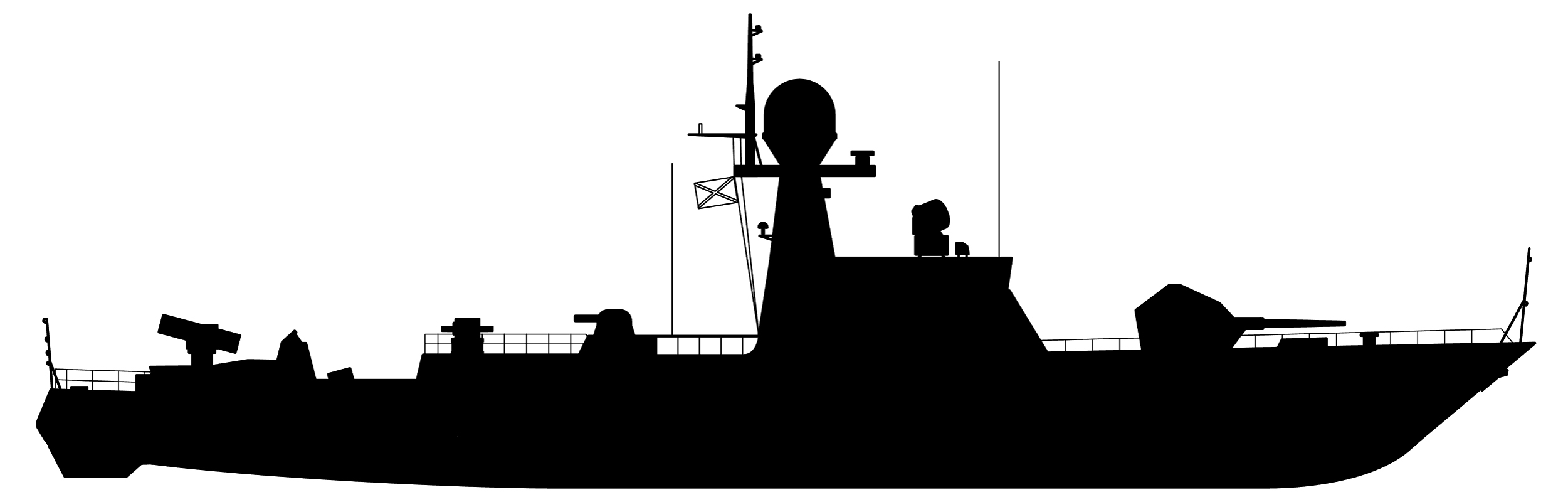 Silhouette of russian Buyan class corvette